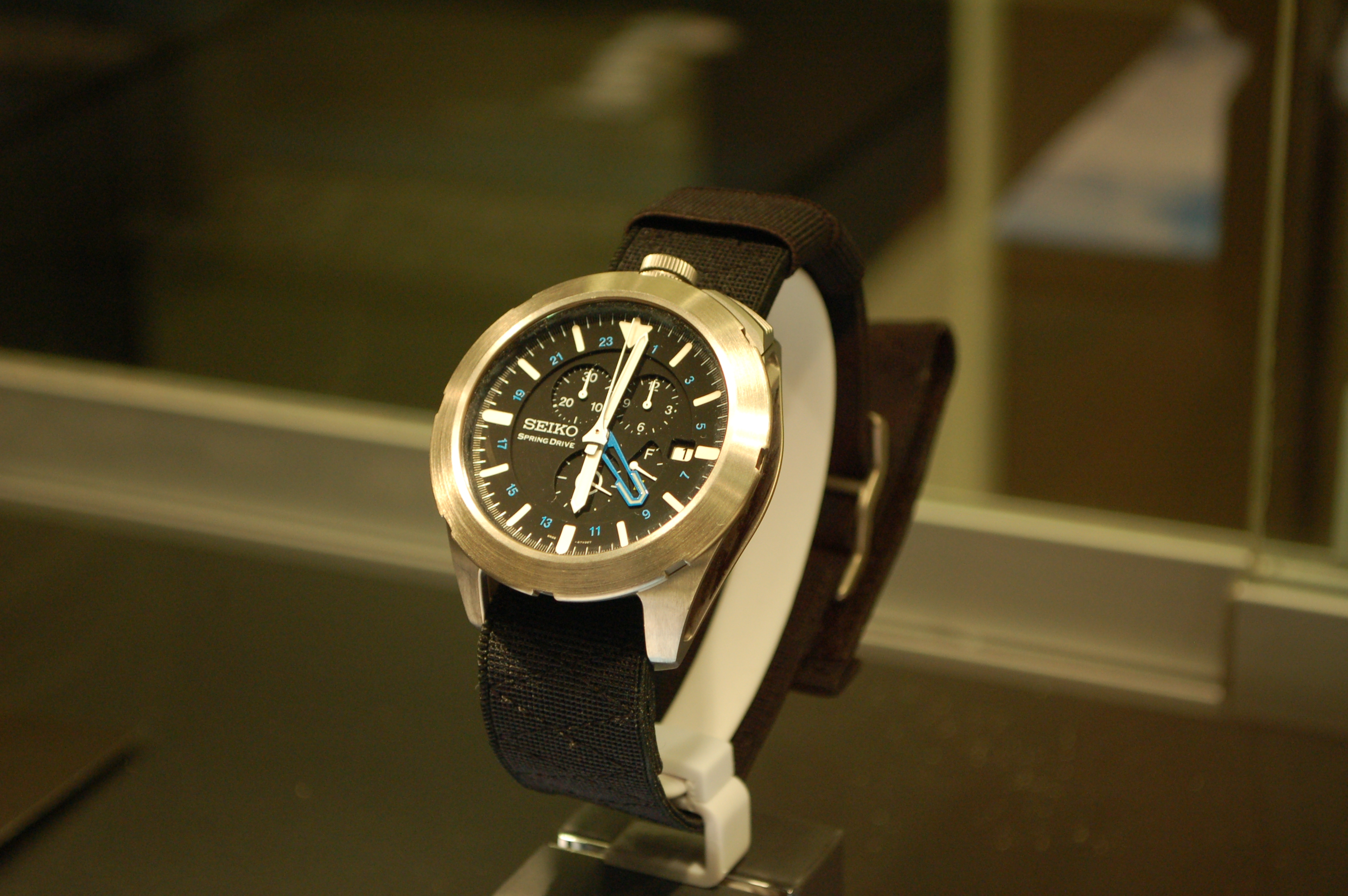 The Seiko Spacewalk Spring Drive at Athina Fair 2009. I don't know if this particular watch is one of the four that travelled to the International Space Station, or if it's one of the 100 Commemorative Edition watches. The only difference between the two categories is that the Commemorative Edition watches have a screw down crown.